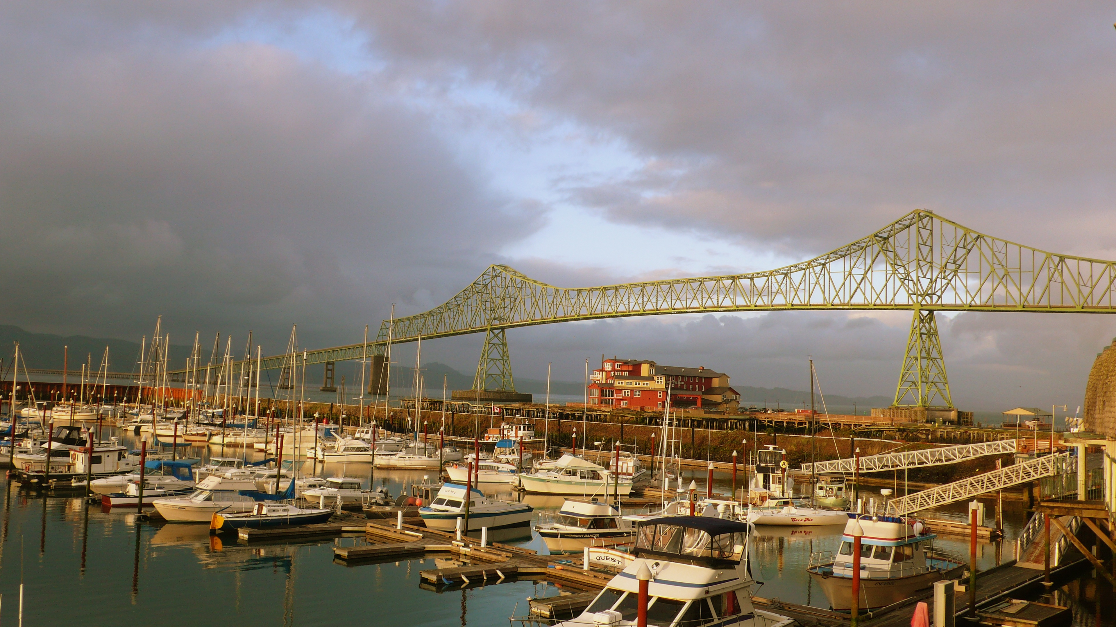 Astoria, Oregon.